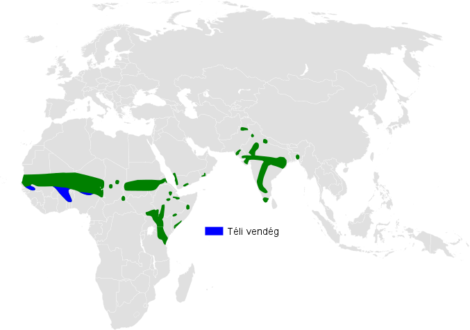 Mirafra cantillans distribution map; using BlankMap-World6.svg, based on